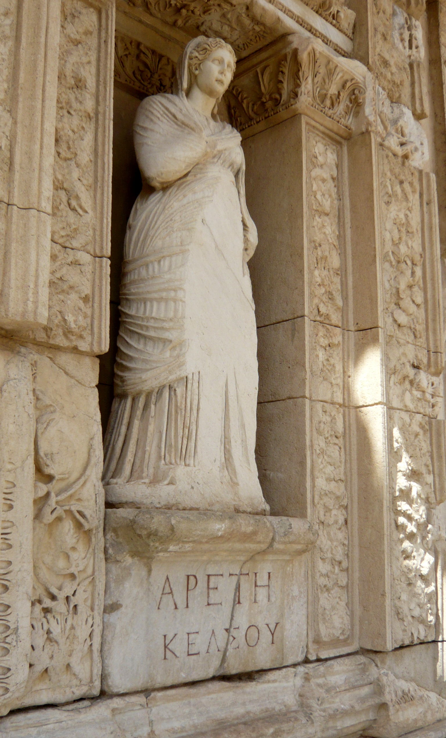 Arete in Celsus Library, Ephesus, Turkey